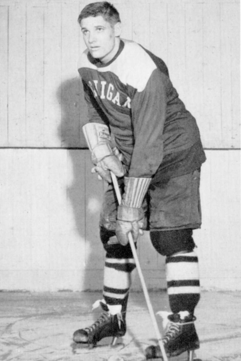 Photograph of 1948–49 Michigan Wolverines men's ice hockey player Al Renfrew This work is in the public domain in the United States because it was published in the United States between 1925 and 1977 without a copyright notice. See Commons:Hirtle chart for further explanation. Note that it may still be copyrighted in jurisdictions that do not apply the rule of the shorter term for US works (depending on the date of the author's death), such as Canada (50 p.m.a.), Mainland China (50 p.m.a., not Hong Kong or Macao), Germany (70 p.m.a.), Mexico (100 p.m.a.), Switzerland (70 p.m.a.), and other countries with individual treaties.